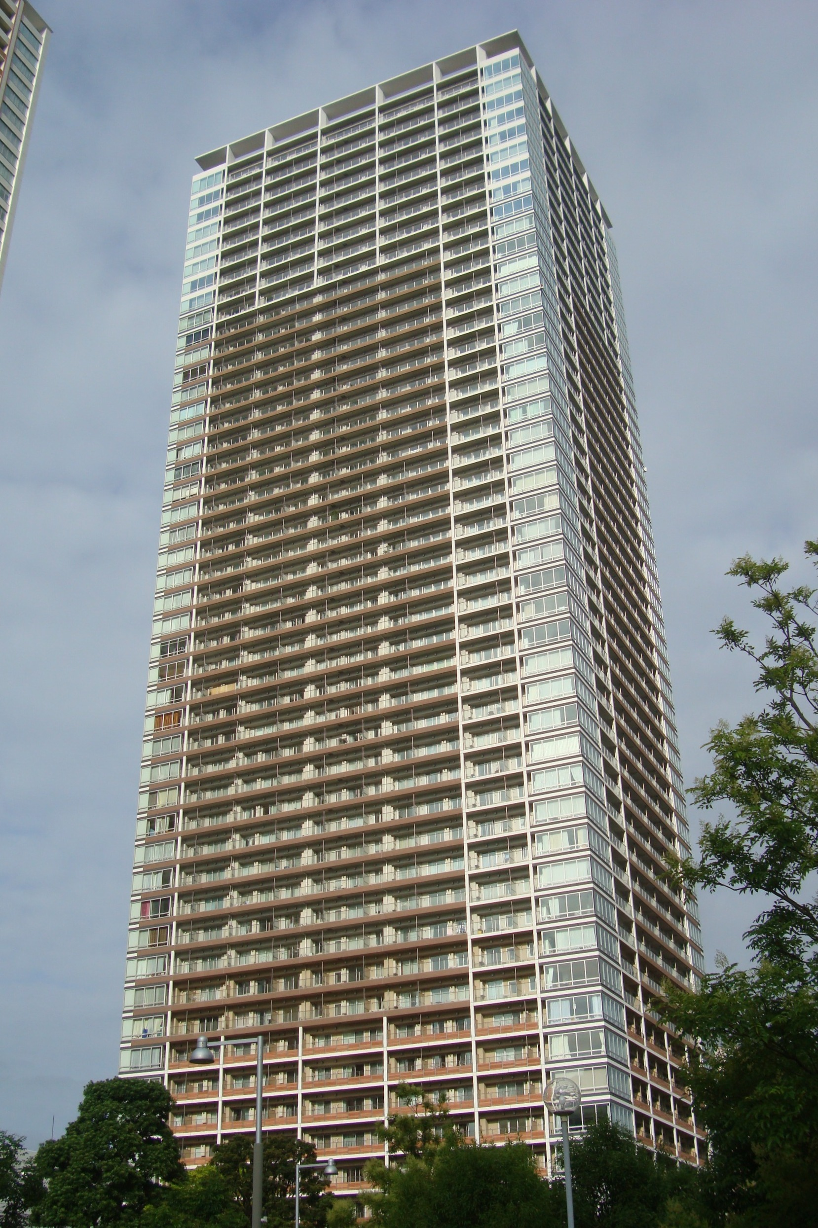 Bloom Tower apartment building at the Shibaura Island complex in Shibaura, Tokyo